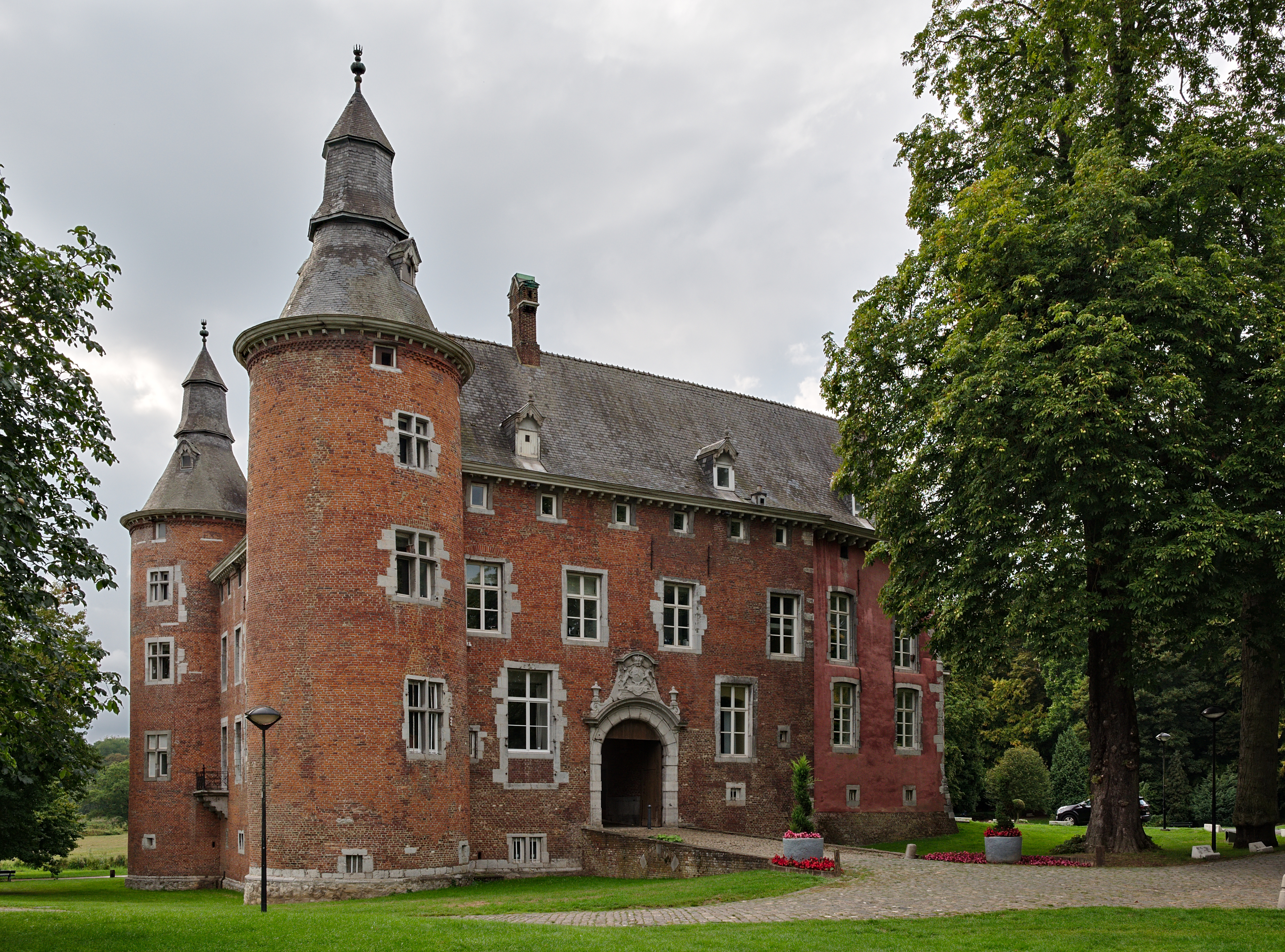 Castle of Monceau-sur-Sambre in Charleroi